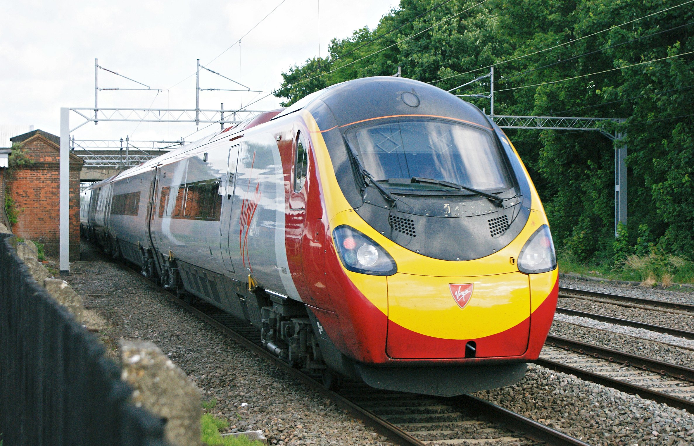 Alstom (Birmingham) Class 390 "Pendolino" 25k v ac overhead high speed express 9-car emu No.390 010 "A Decade of Progress" of Virgin West Coast passing Headstone Lane on a Euston - Glasgow Central service, 07/08.